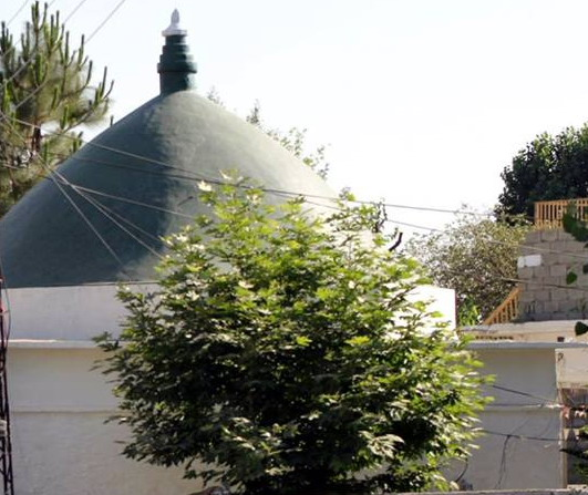 Shrine of Syed Jalal Bukhari in Jango Village in Dist. Dir (Lower) KPK Pakistan.